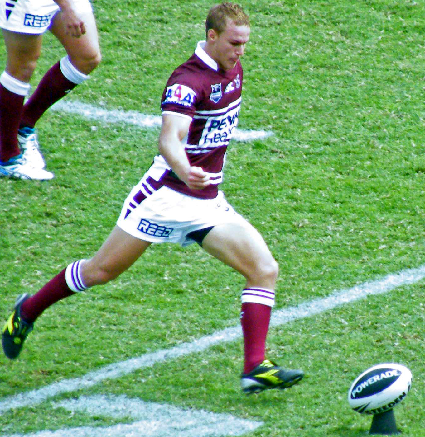 Daly Cherry-Evans